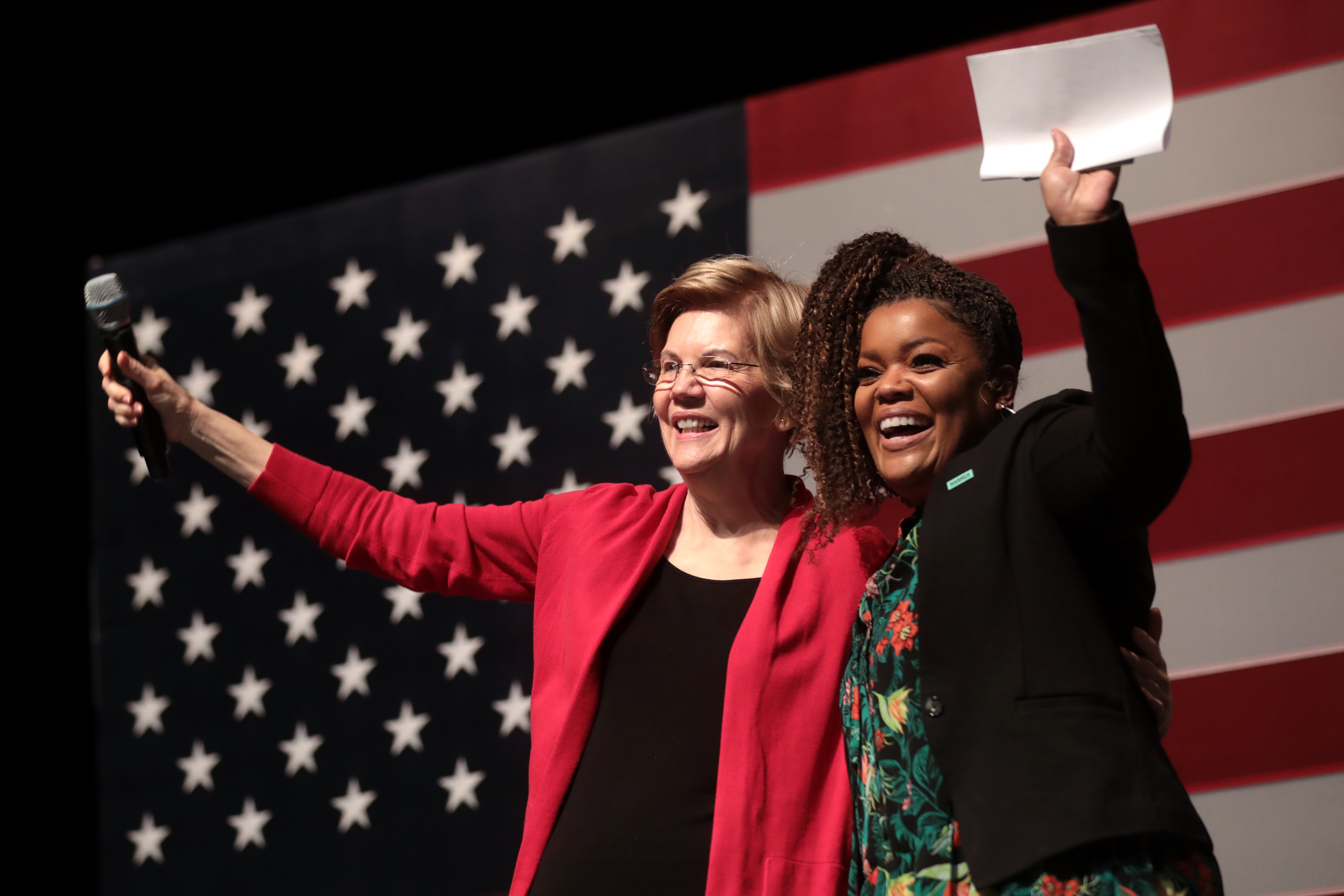 U.S. Senator Elizabeth Warren and Yvette Nicole Brown speaking with supporters at a town hall at Centennial High School in Las Vegas, Nevada.